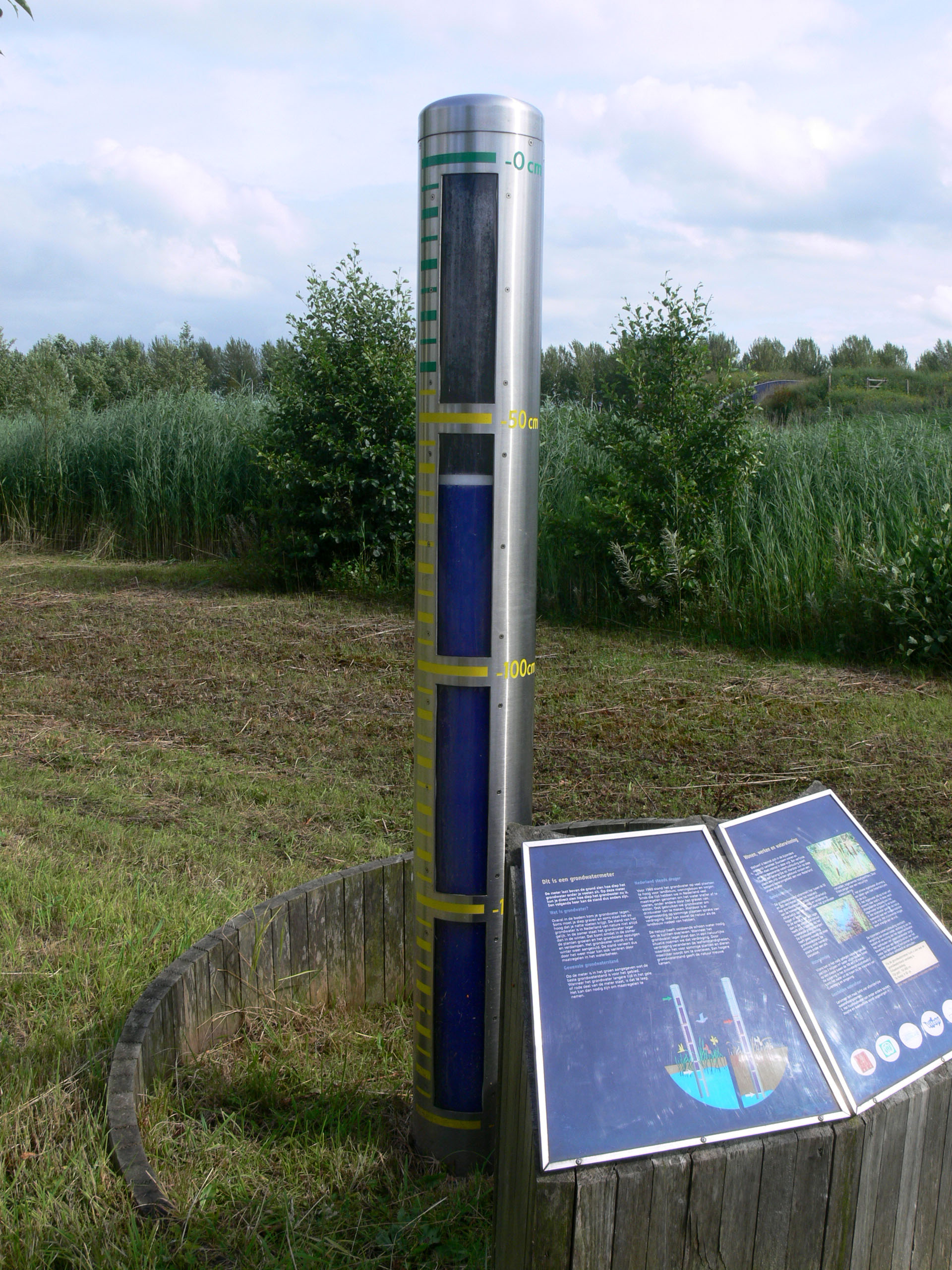 pedagogic piezometer in E.V.A. Lanxmeer district (a "green distric" named Lanxmeer, built at Culemborg, The Netherlands), wich is a recent (1994-2009) district (semi-public eco-building) of approximately 250 ecological houses, several offices and a urban farm. The project is based on "Sustainable Implant" with a spatial combinaison of natural systems, technical approach of integrated waste (wastewater) / energy system and écological and social purposes, for an urban neighborhood. The district is in an ecologically sensitive area (former drinking waterextraction and retention area). The conception of this district is based on permaculture, and organic design, a small biogas installation (able to treate black water and organic waste and garden & park waste), a combined Heat Power. Some houses are in closed greenhouse. A semi-public building (the ‘EVA Centre) should yet be made, based on the Living Machine concept.